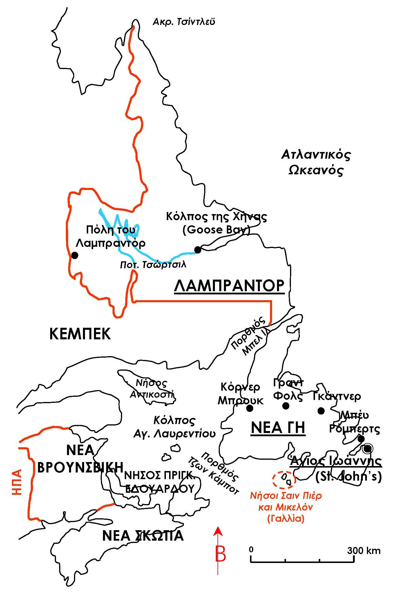 Greek map of Newfoundland and Labrador